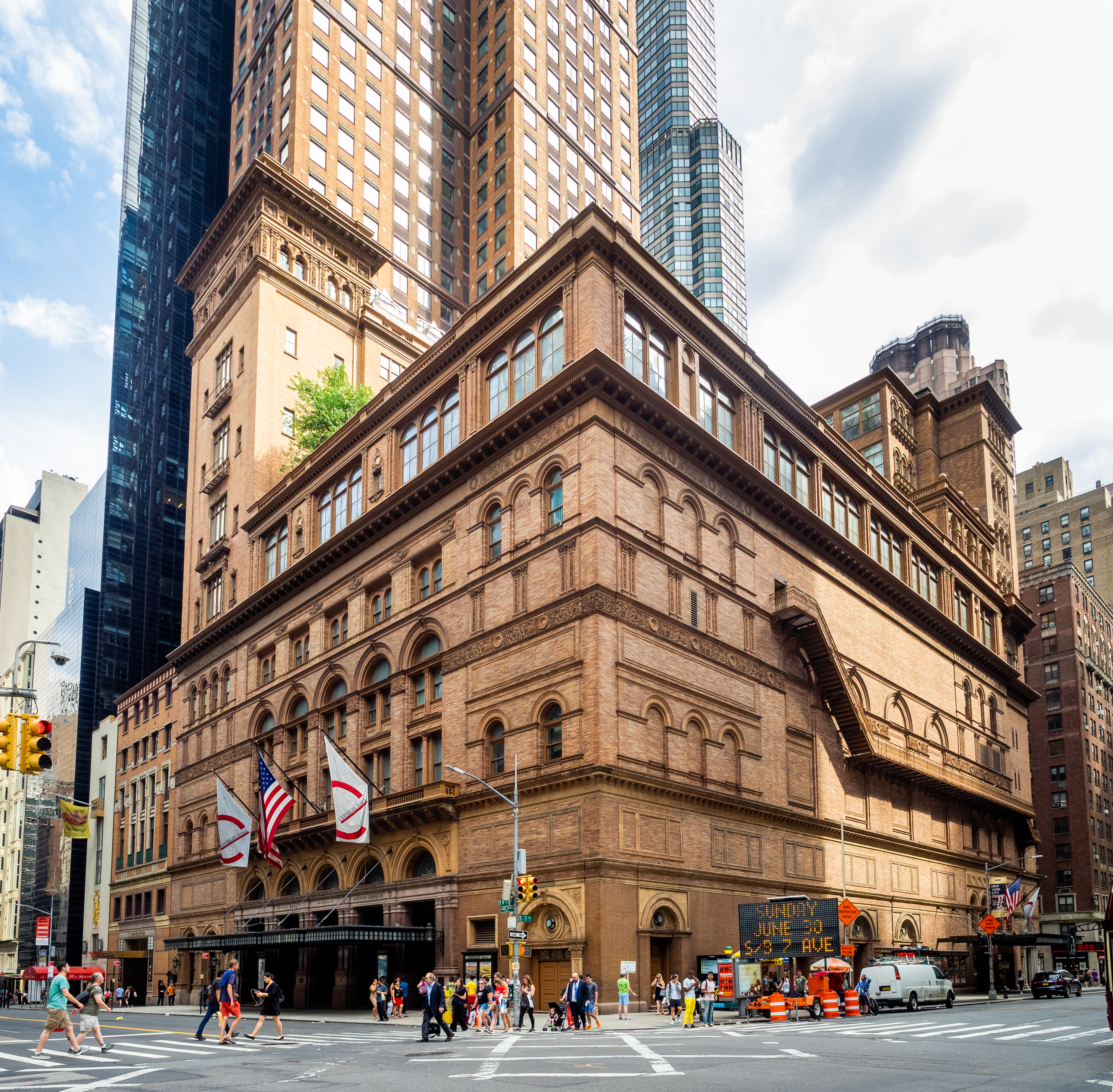 Midtown Manhattan, NYC